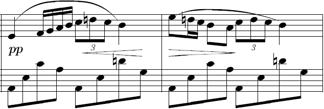 Contrasting section from Chopin's Nocturne No 20, Opus Posthumous, in C-sharp minor.